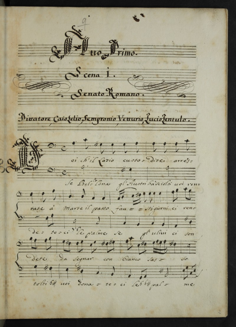 The beginning of the first act of the opera "Il fuoco eterno custodito dalle Vestali" by Antonio Draghi.